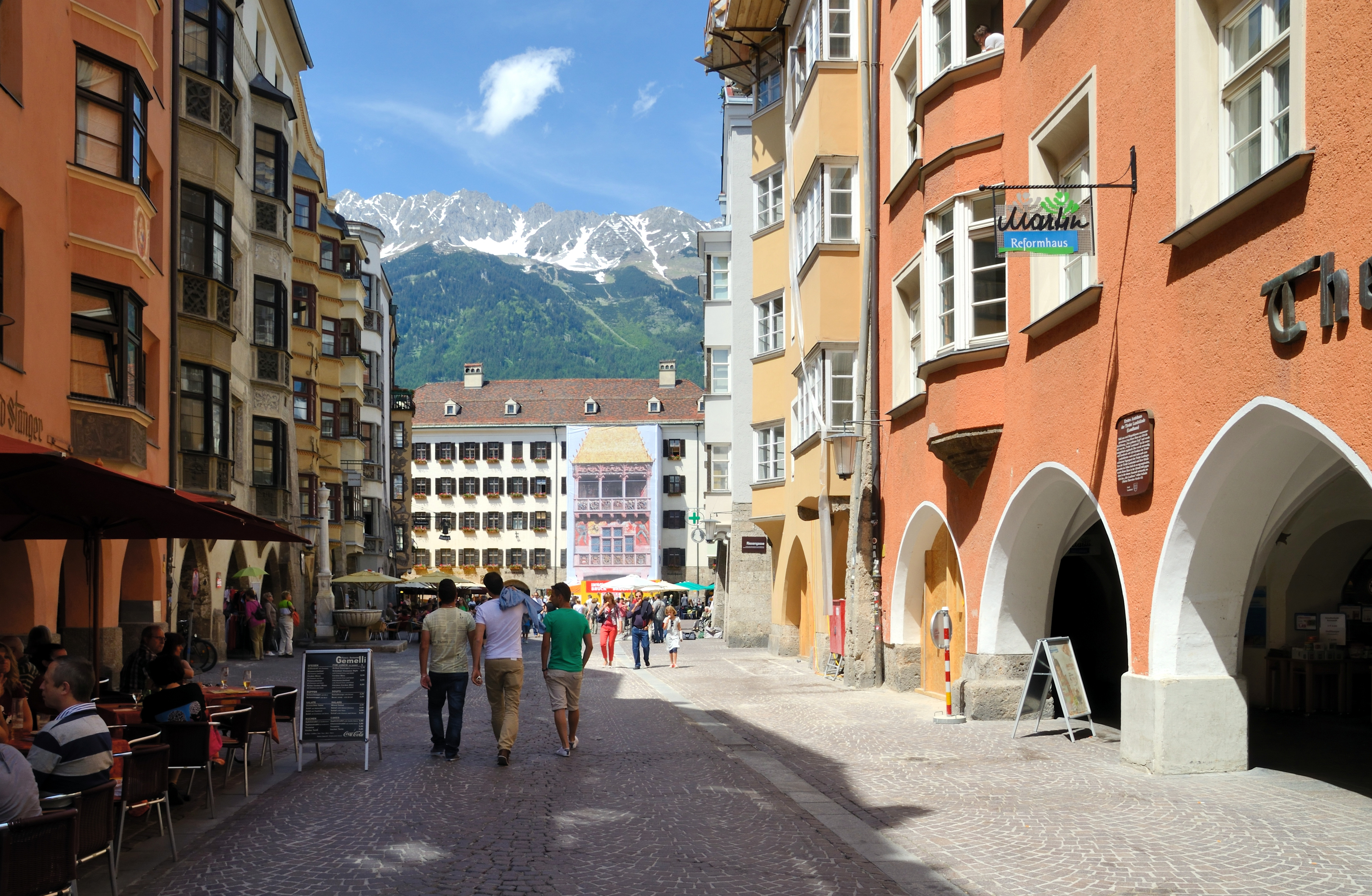 Innsbruck: Duke Frederick Street (Herzog-Friedrich-Straße)